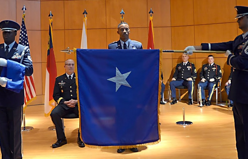 Clarence Ervin receives his position standard during promotion in 2015